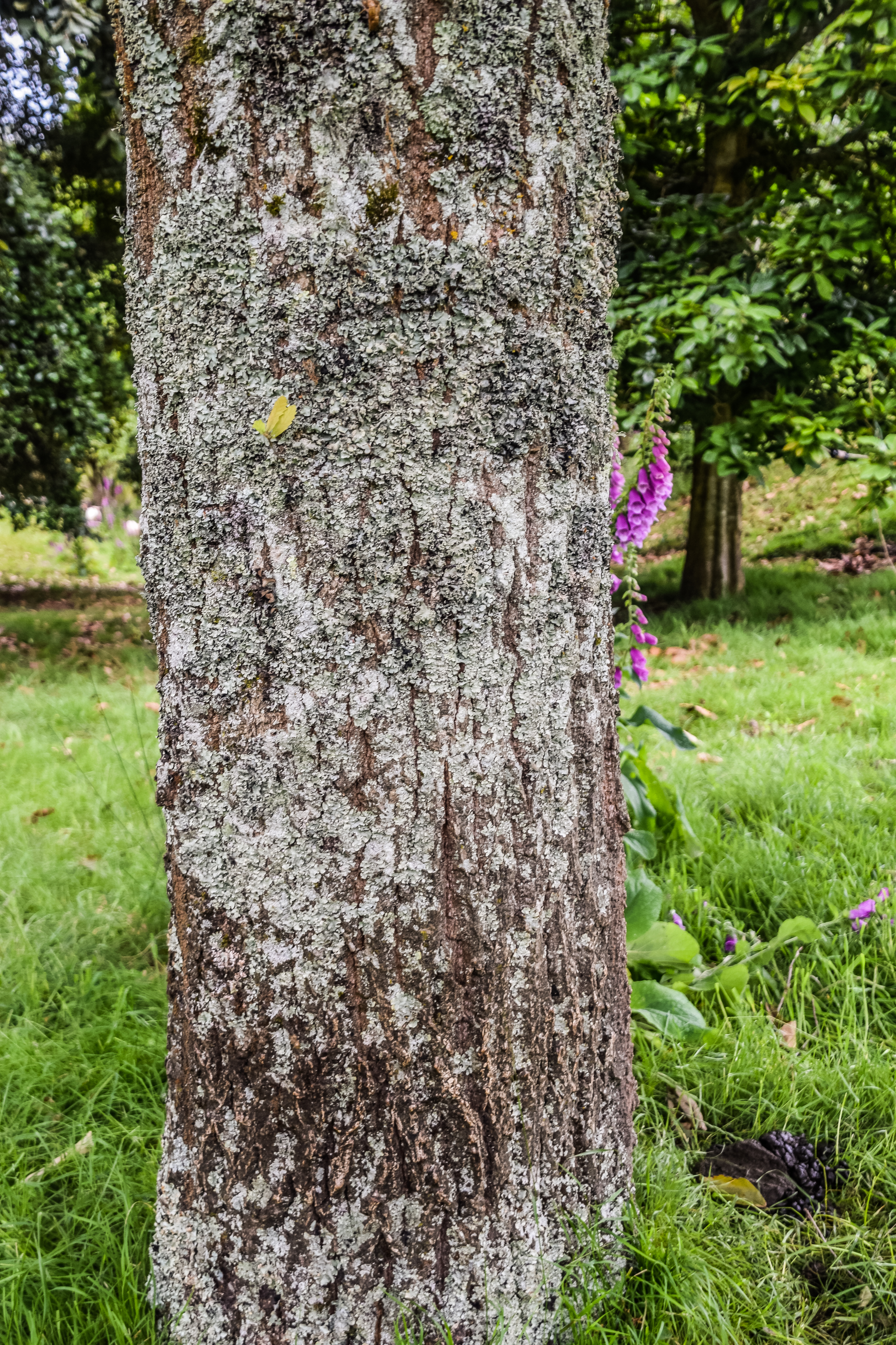 Quercus griffithii in Hackfalls Arboretum, Gisborne Region, New Zealand